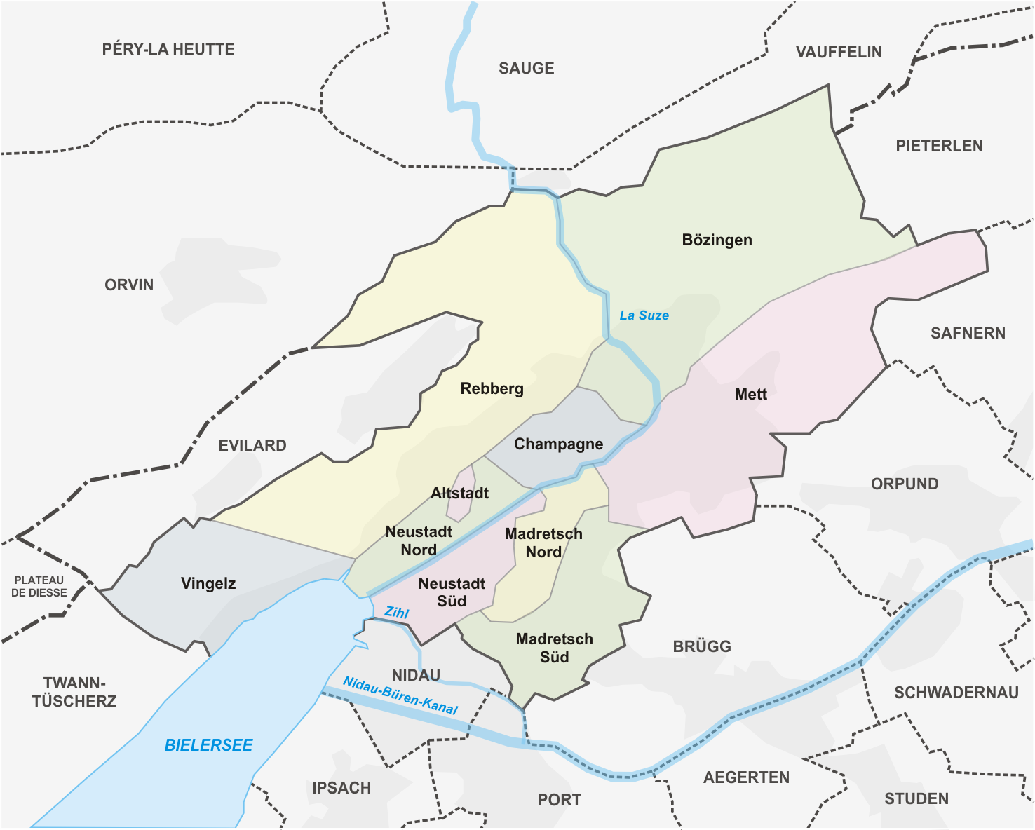 Biel Quarter